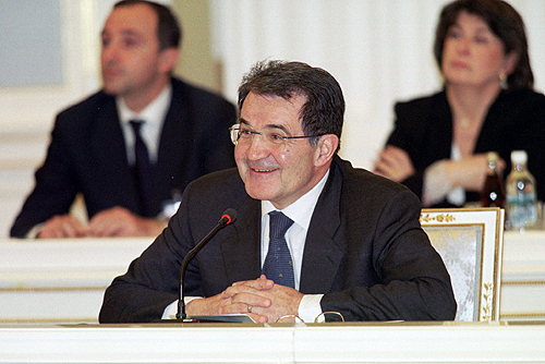 THE KREMLIN, MOSCOW. European Commission President Romano Prodi at the Russia-EU summit.